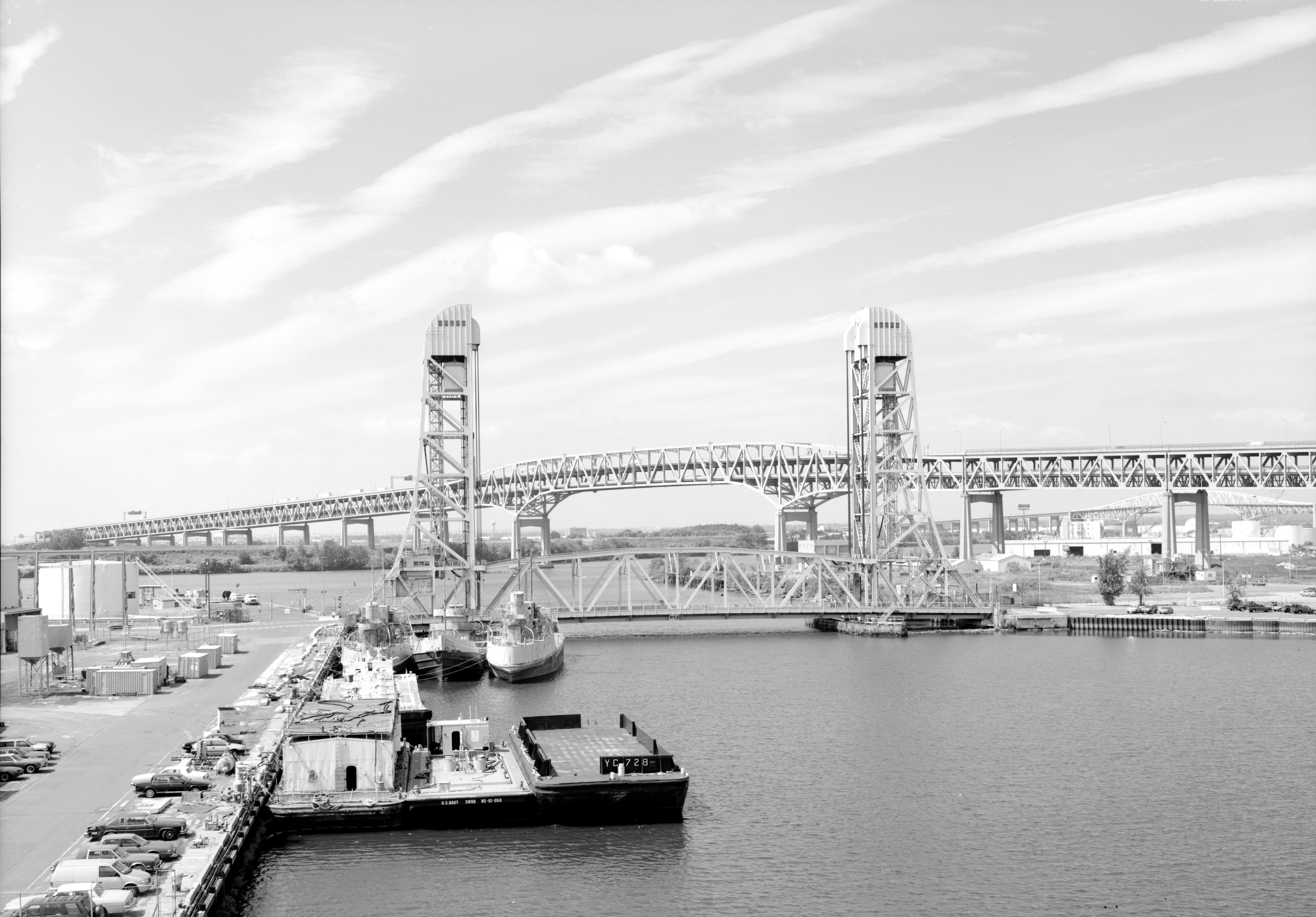 View from floating barracks west of Basin Bridge to the reserve basin of the Philadelphia Naval Shipyard, Pennsylvania (USA). The I-95 Girard Point Bridge is visible in the background.